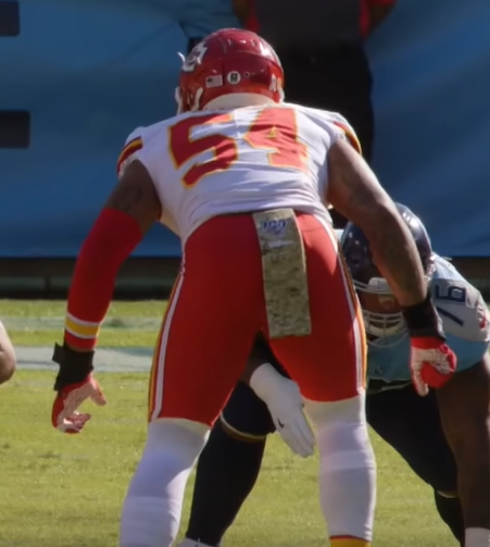 Damien Wilson 2019. Image taken from video Titans Mic'd Up vs. Chiefs (Week 10) | Sounds of the Game ~ 01:07